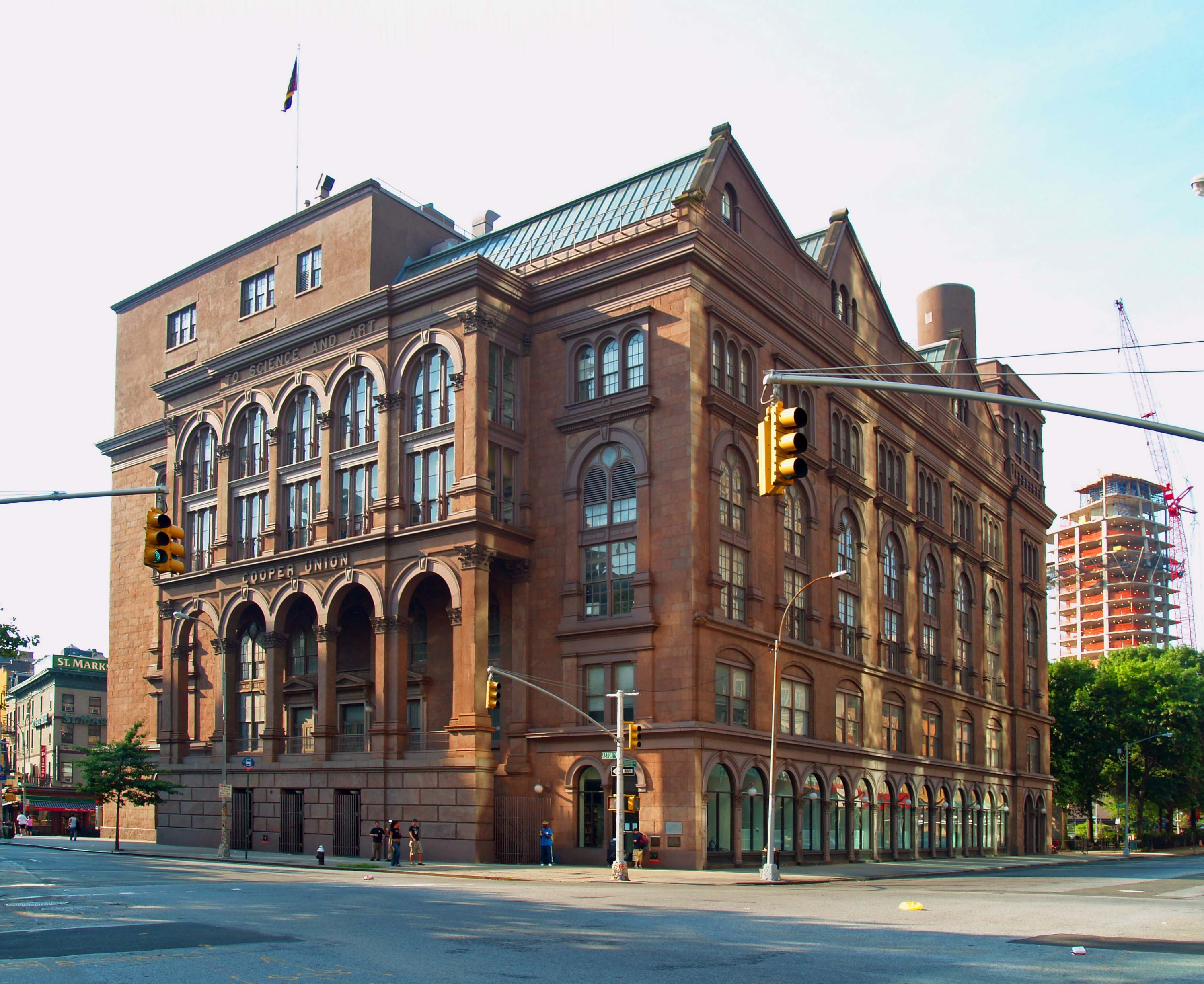 Cooper Union Foundation Building, built 1853-59, designed by Frederick A. Peterson.